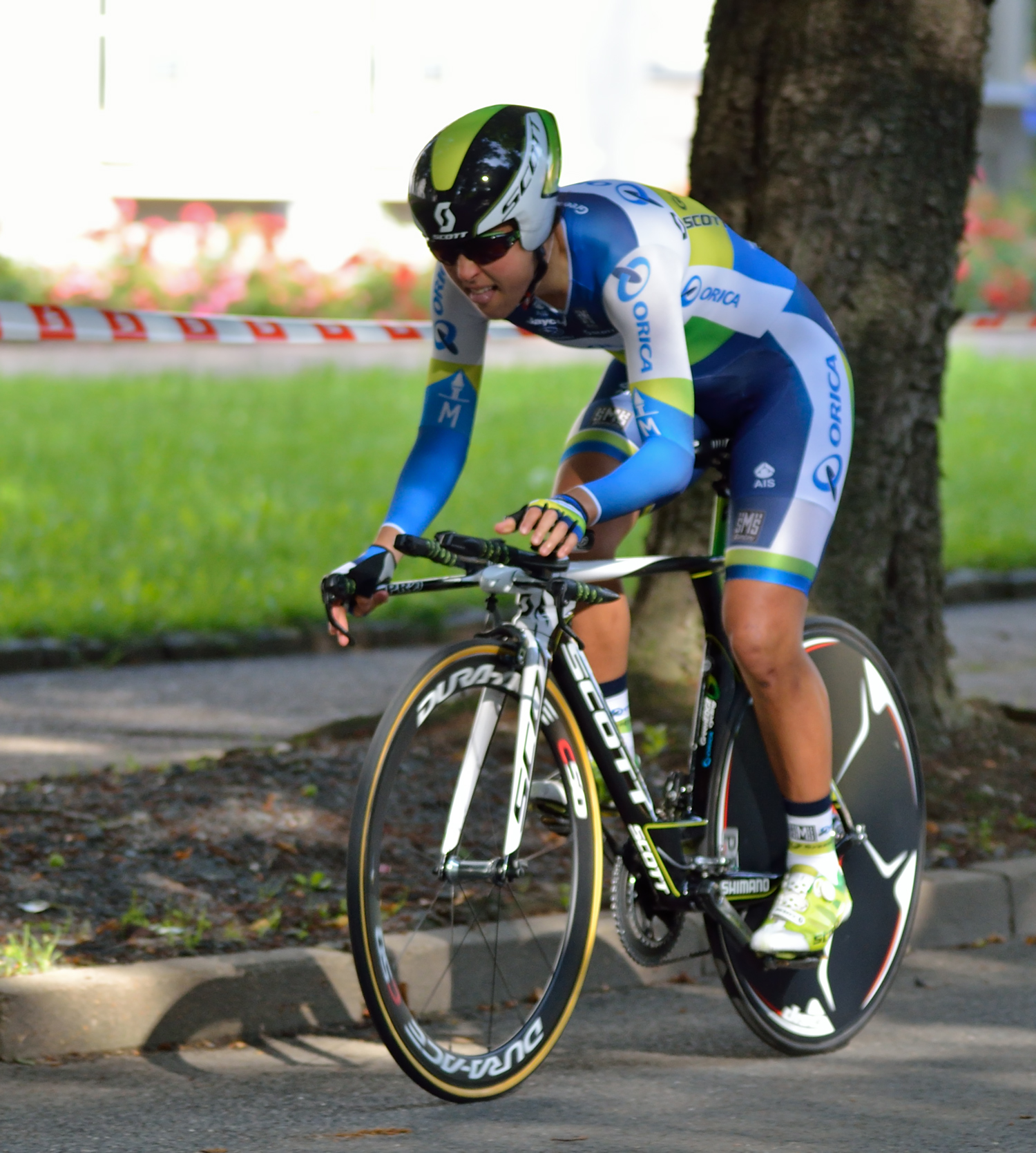 Rowena Fry from the Orica-AIS team during the Women's Tour of Thuringia 2012 in Zwickau, Germany.